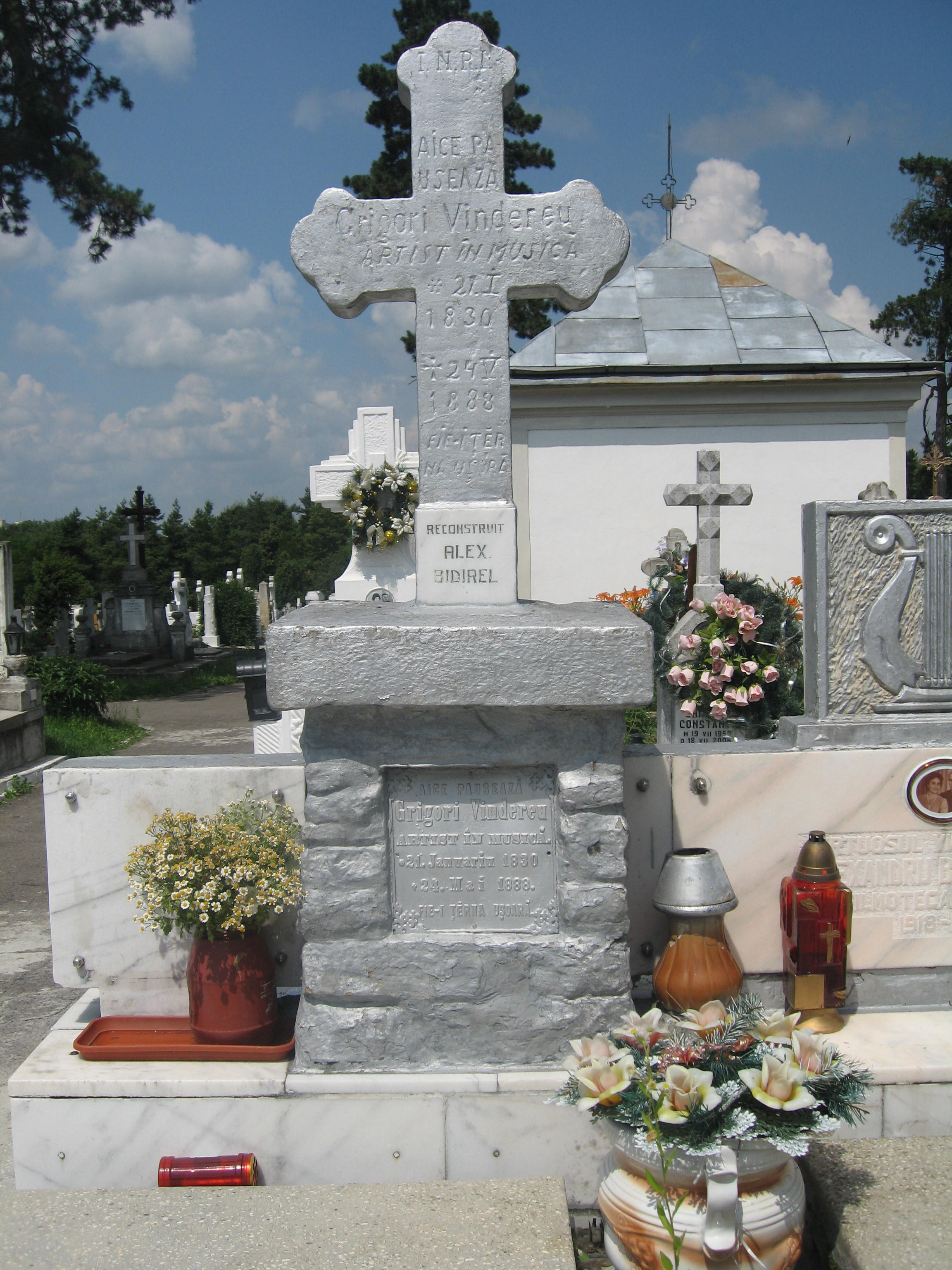 Pacea Cemetery in Suceava - Tomb of Grigore Vindereu.